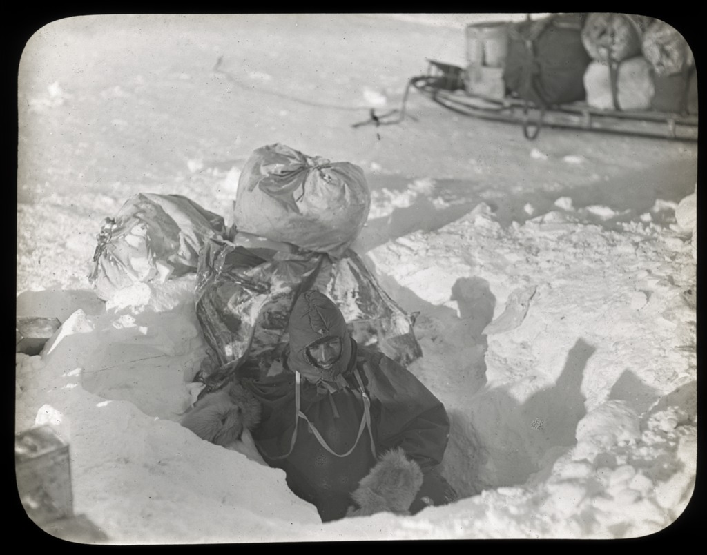 Part of the John George Hunter collection of photographs of Antarctic, 1911-1914.; Photographer unknown, probably Frank Hurley or Douglas Mawson.; Slide created by Frank Hurley from the original photograph.; Published in: The home of the blizzard / by Douglas Mawson. London : William Heinemann, 1915, v. 1 p. 220. Persistent URL .au/nla.pic-an23323332